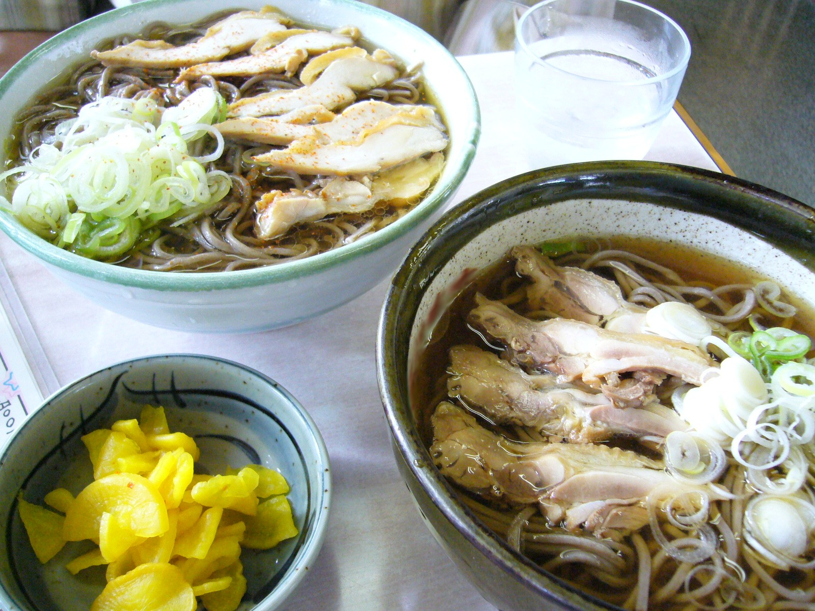 chicken-buckwheat-noodles,sagae-city,japan.JPG